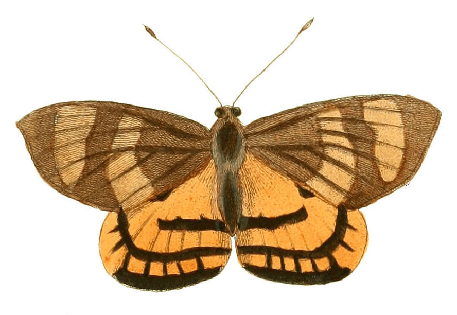 Extract from Plate XVI. CASTNIA THAIS (= Ceretes thais).